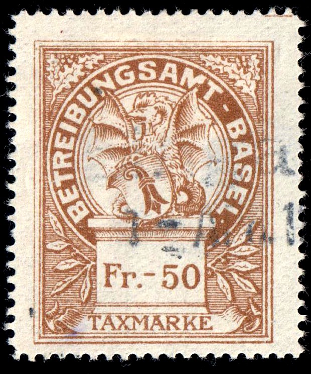 Switzerland Basel 1920 Betreibungsamt revenue 0.50Fr - 87, perforated 15.25.